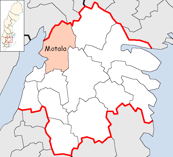 Motala Municipality in Östergötland County Designed by me. Mere outlines are a PD source from